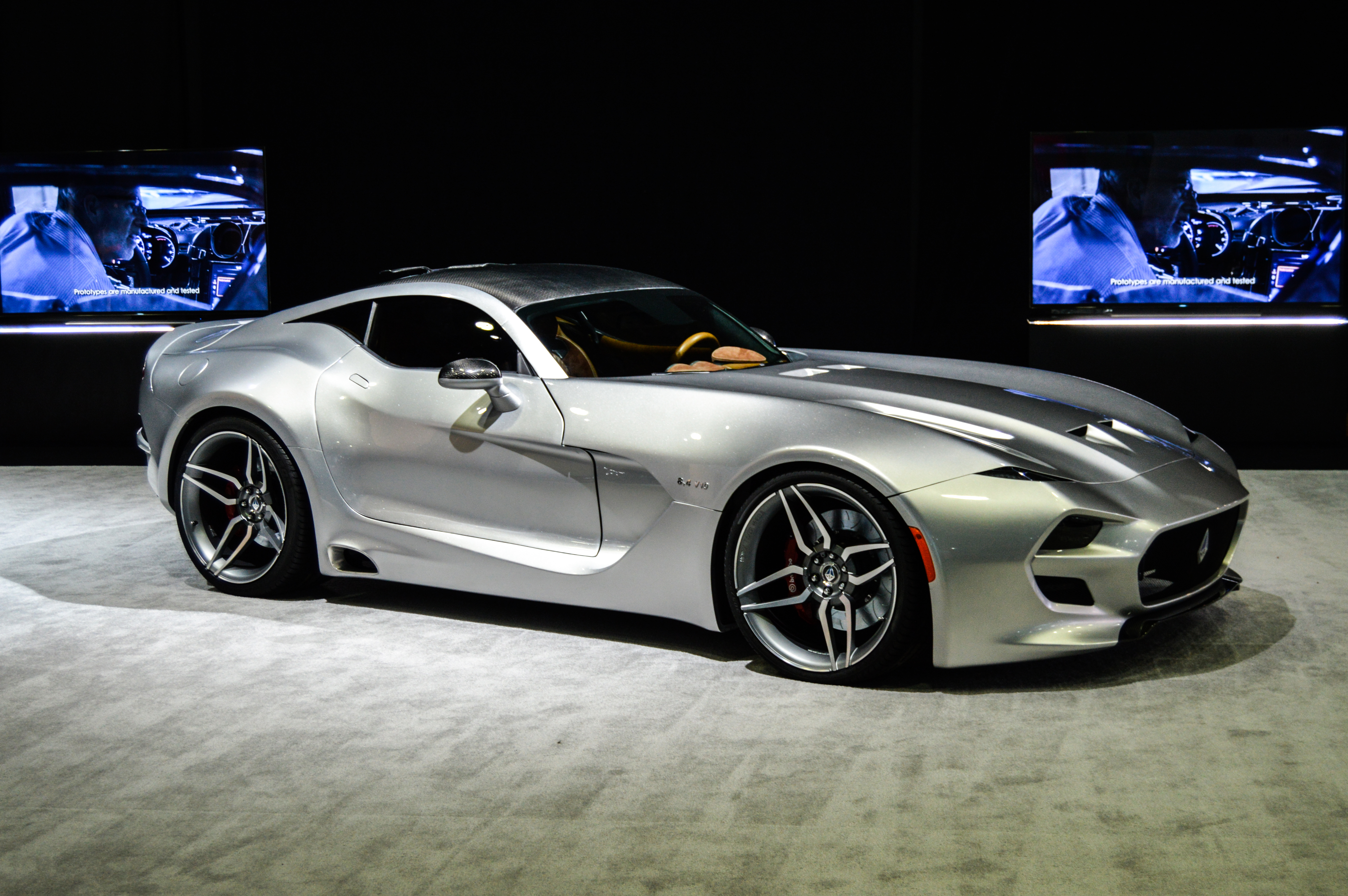 VLF Force 1 V10